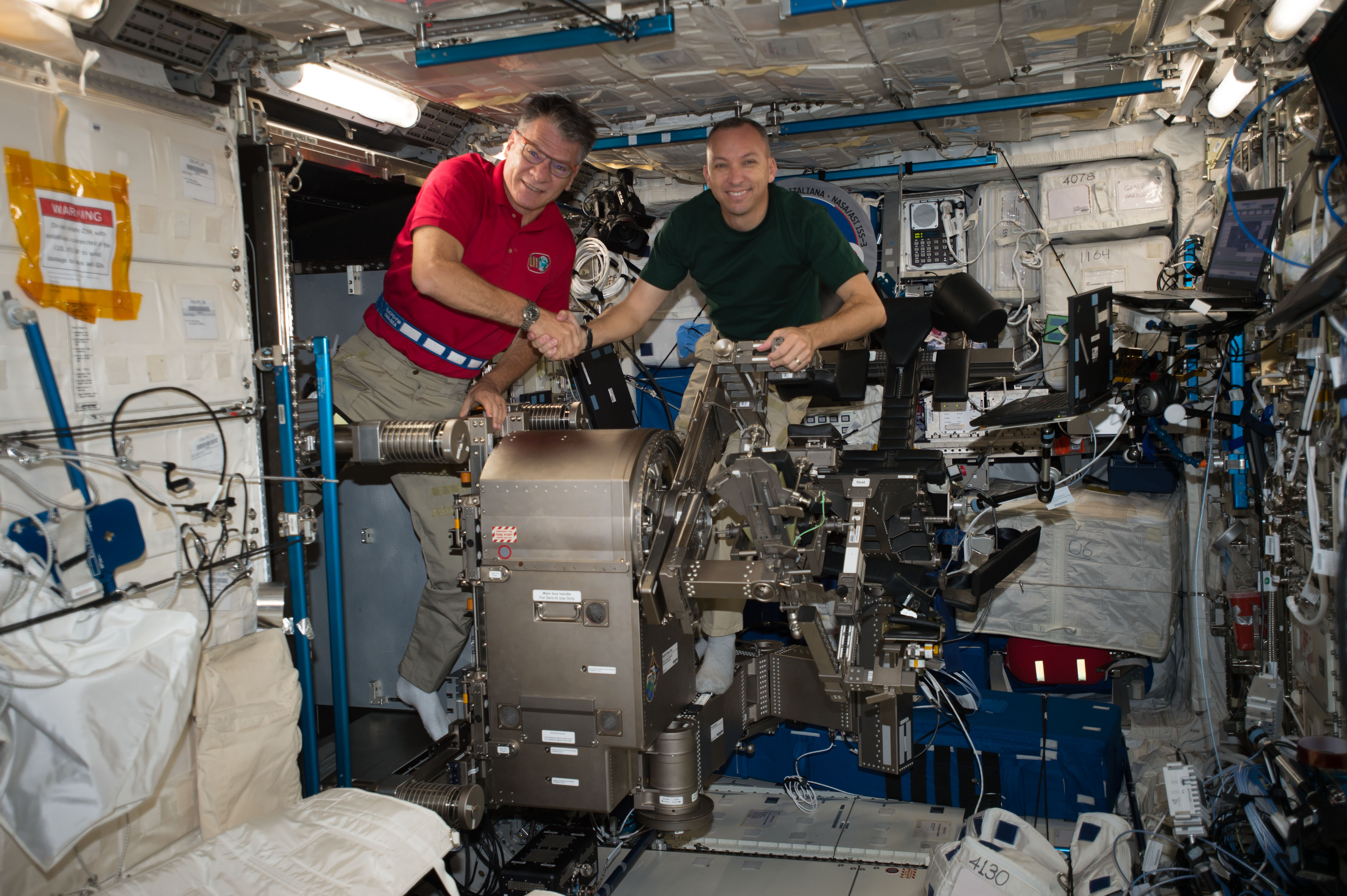 Astronauts Paolo Nespoli and Randy Bresnik are at work in their new home in space where they will live until mid-December. You can see the Muscle Atrophy Research and Exercise System (MARES) equipment in the front of the astronauts.